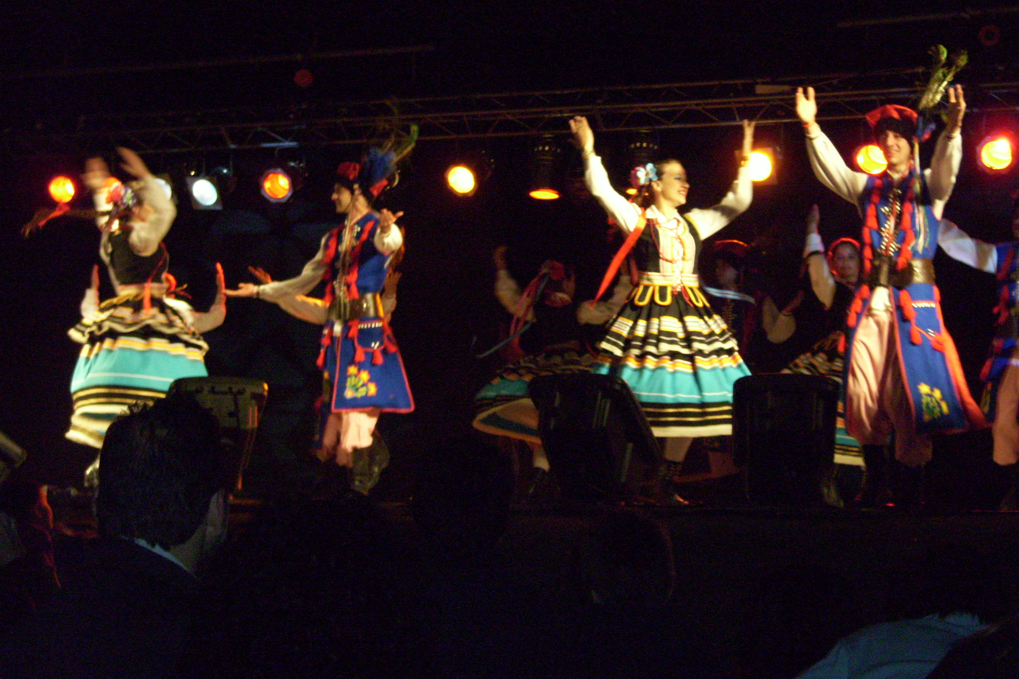 Members of the Polish collectivity's ballet from Rosario, Santa Fe perform a typical Polish dance during the 15th Collectivities' Festival in San Pedro, Buenos Aires Province, Argentina.